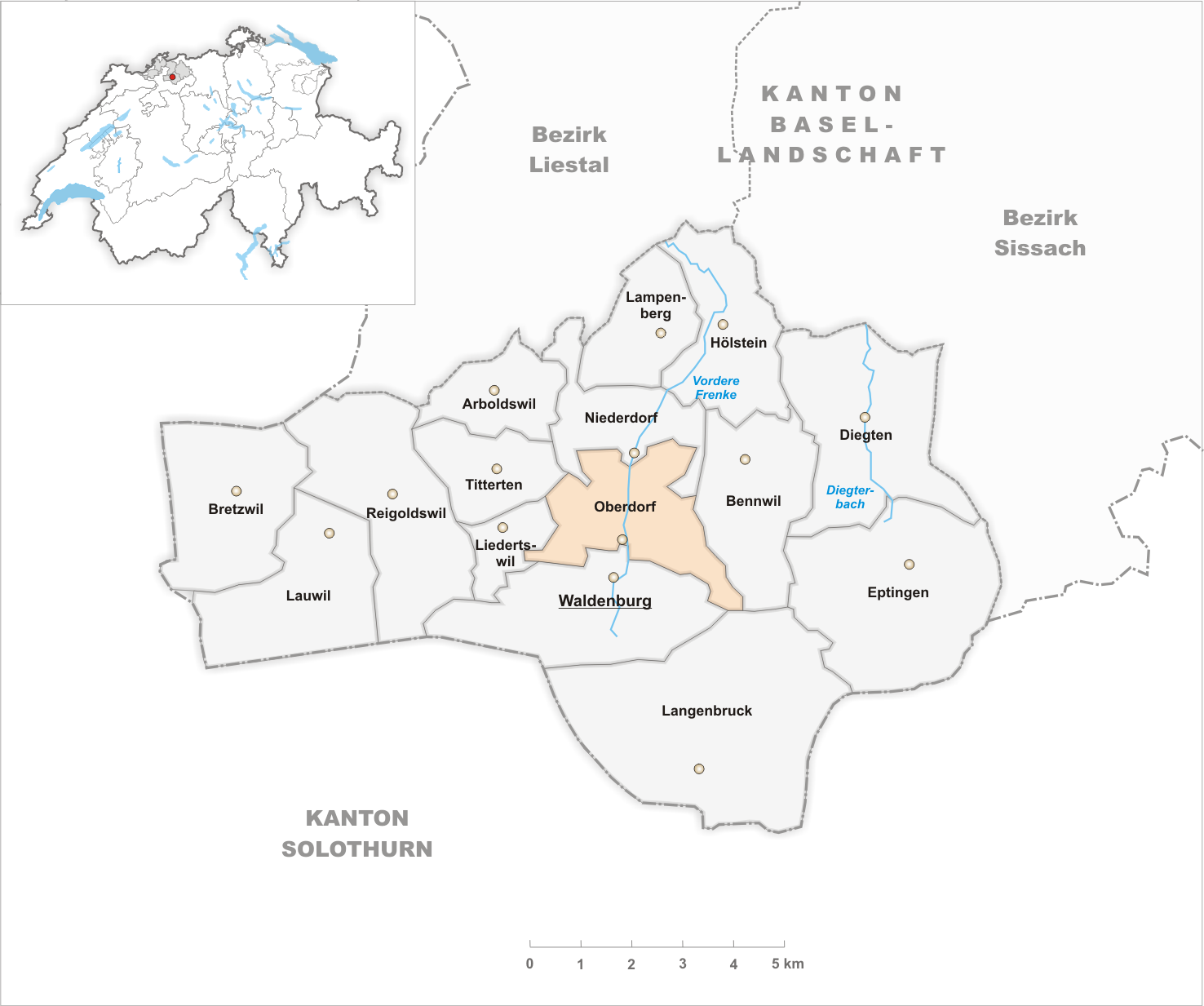 Municipality Oberdorf